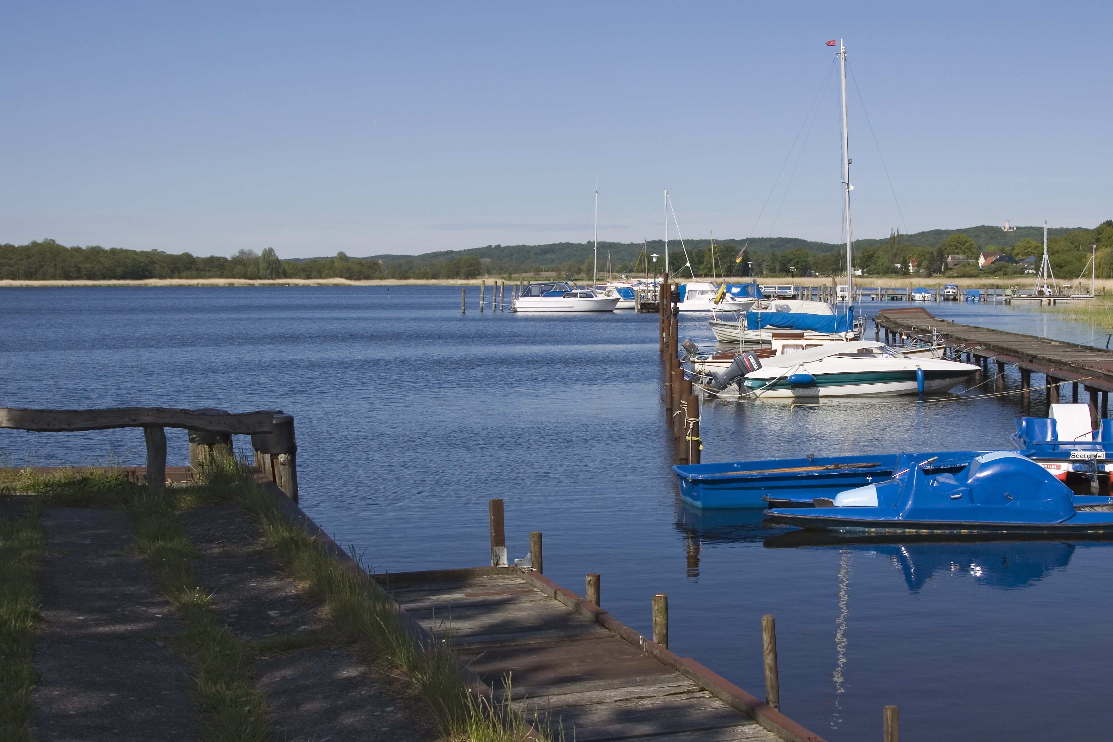 Selliner See, bay in Germany, island of Rügen